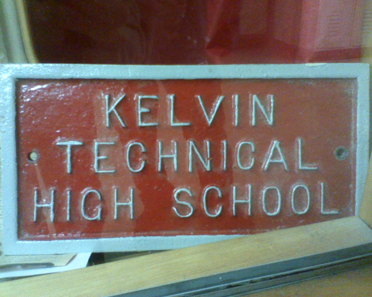 The plaque that appeared on the original Kelvin Technical High School, on display at Kelvin High School.